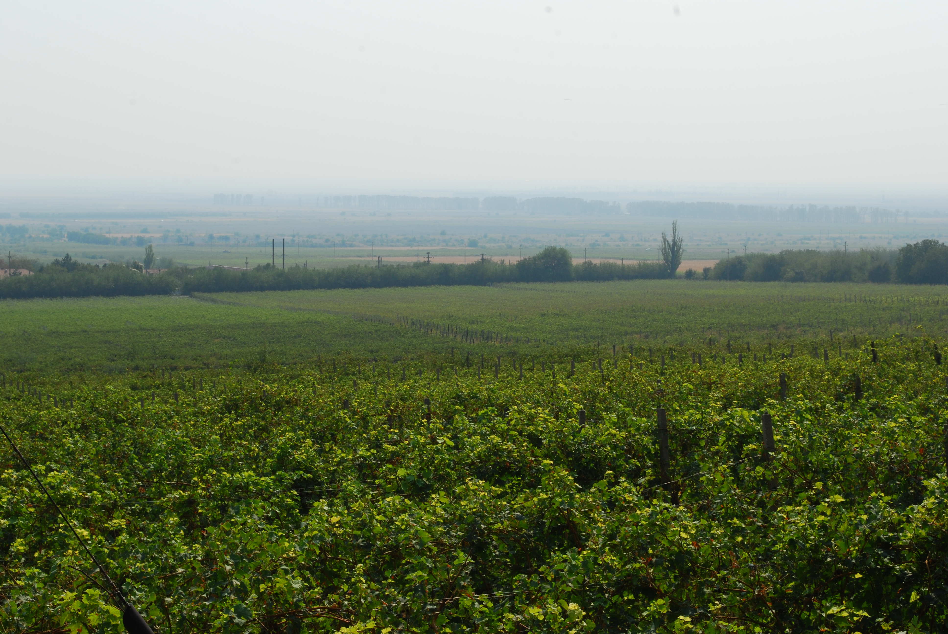 Vineyard at the winemaking research center in Pietroasele, Buzău County, Romania